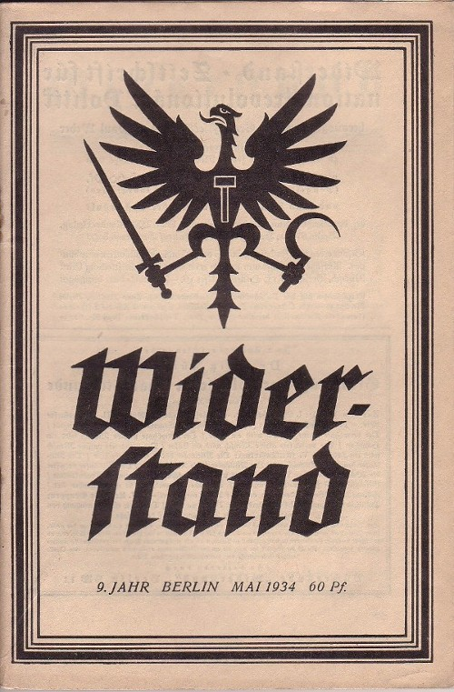 Cover of the German National-Bolshevik magazine "Widerstand", May 1934